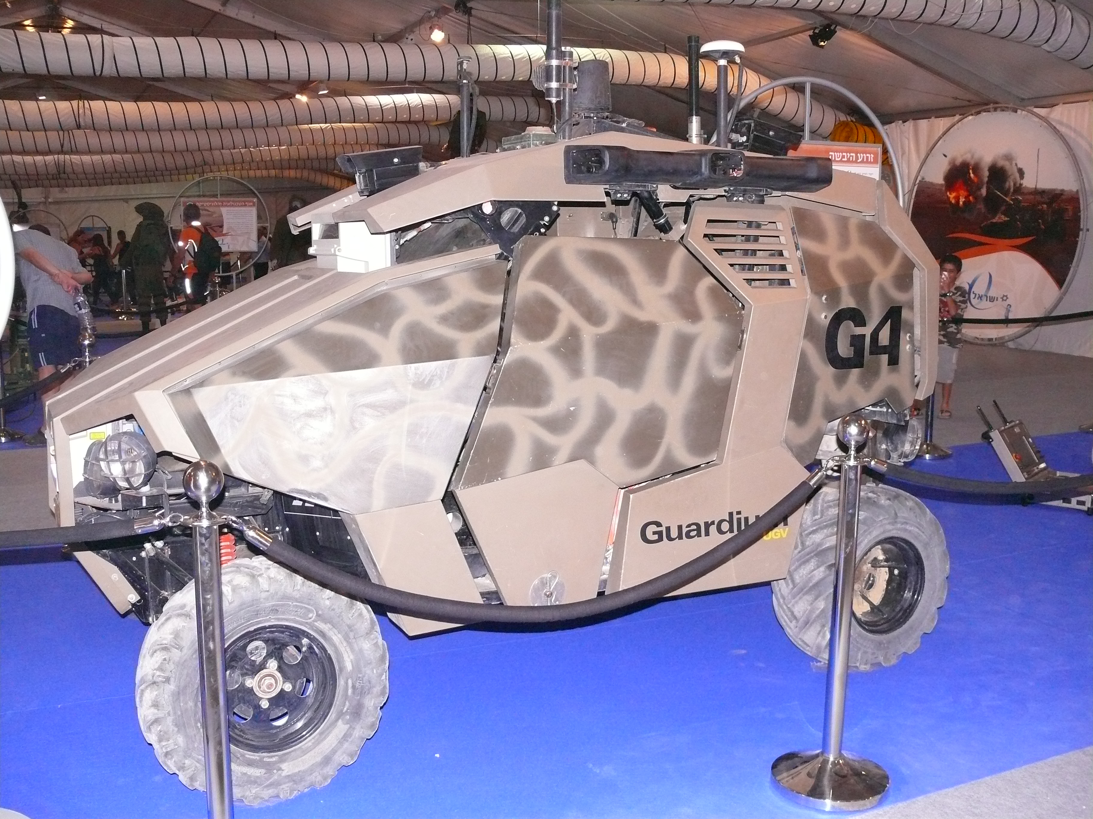 Guardium unmanned patrol vehicle